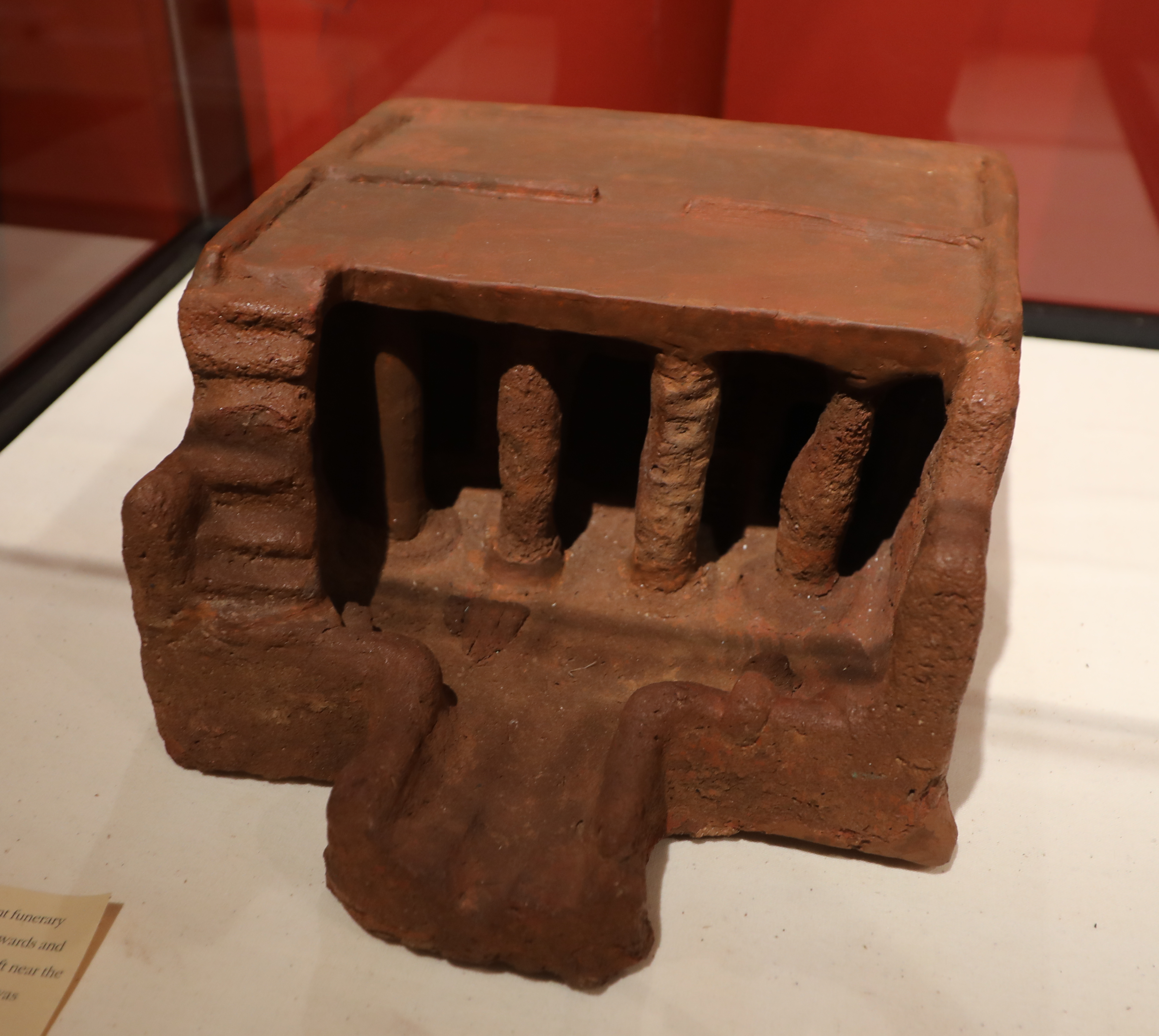 Photo of a Soul Houses on display at the silk museum in a exhibition of stuff usualy at west park museum